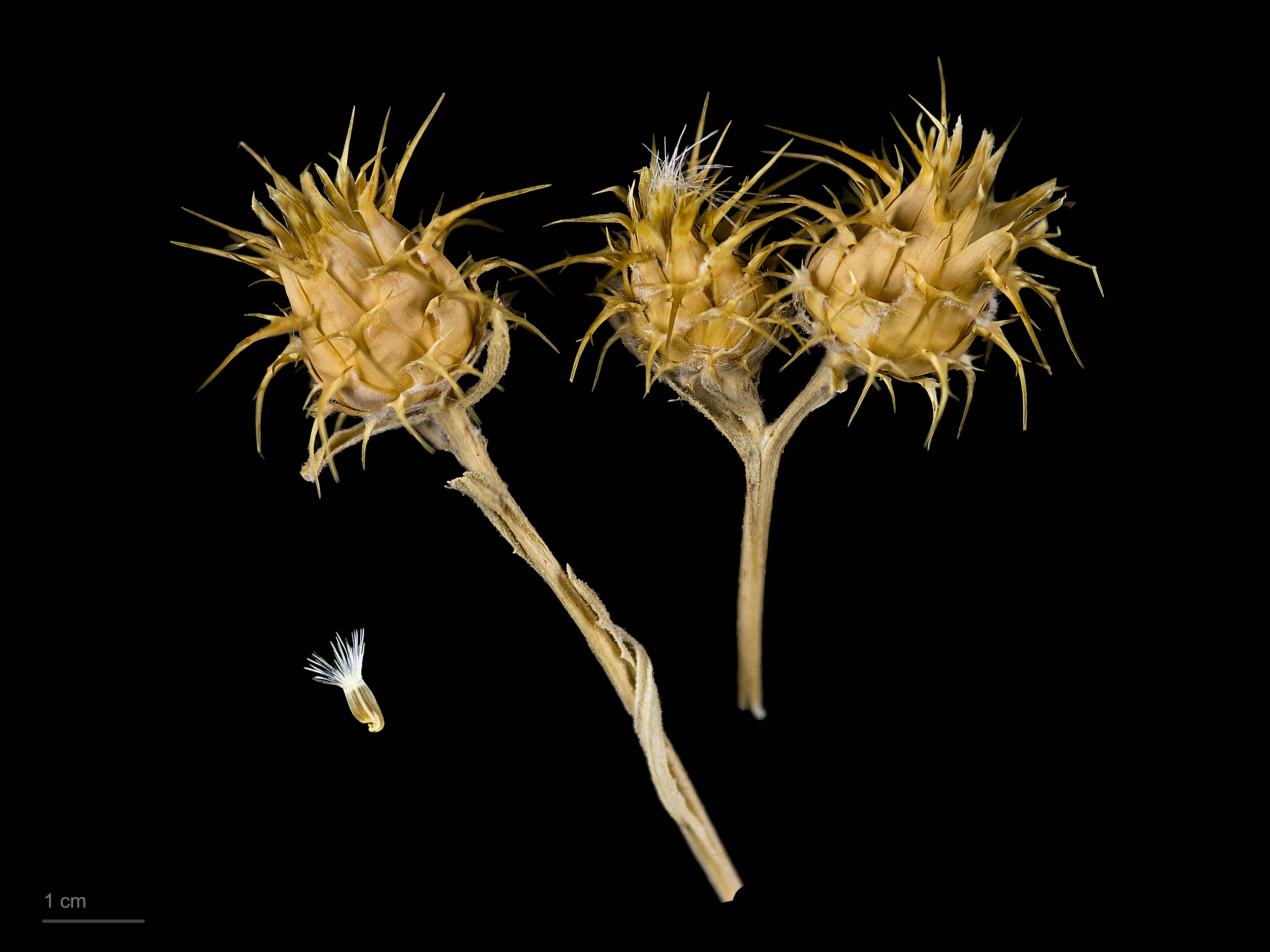 Maltese star thistle, fruits and seeds